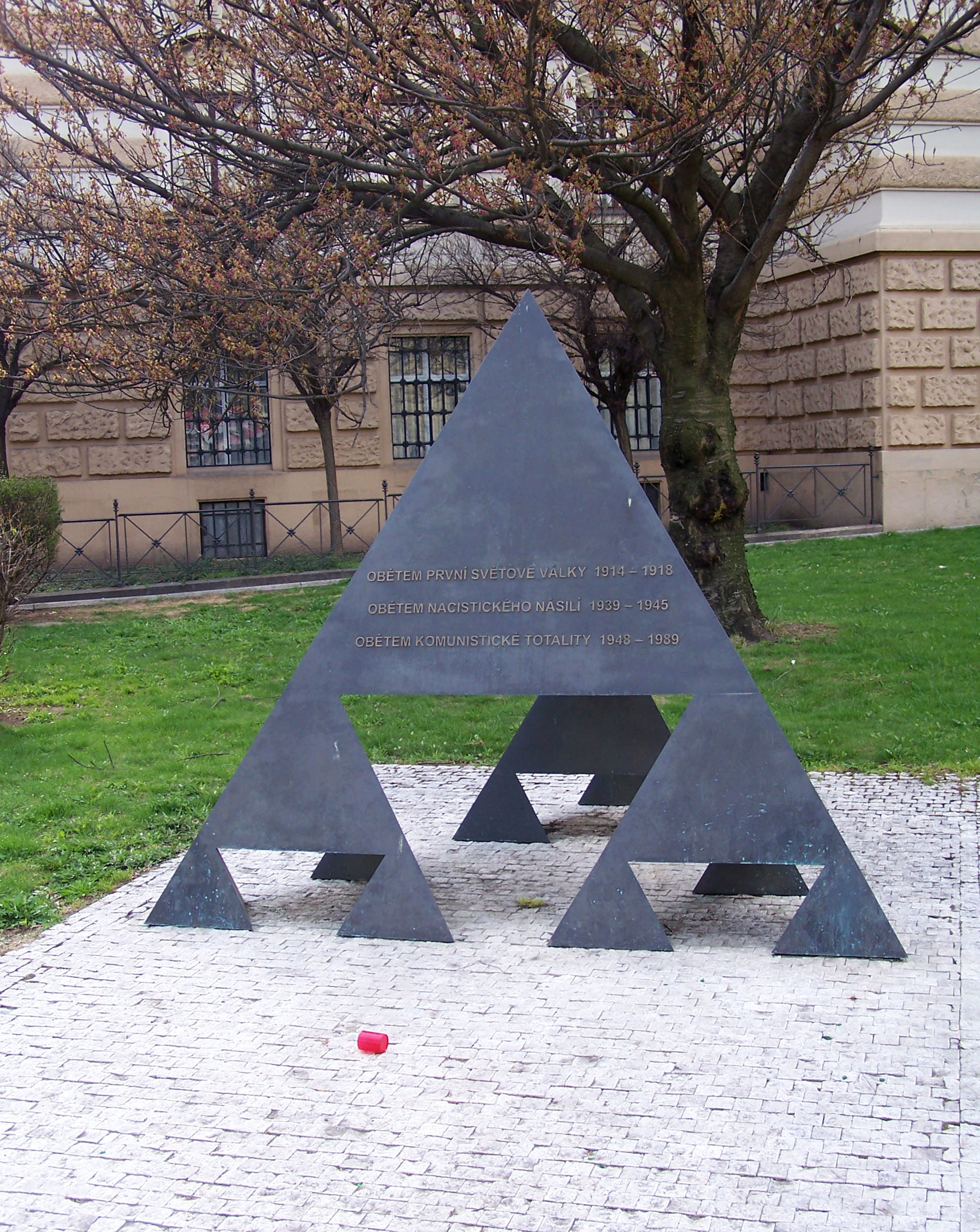 Memorial to the victims of World War I, World War II and communist Czechoslovakia in Brno, Czech Republic (Michal Gabriel, 2006, bronz)